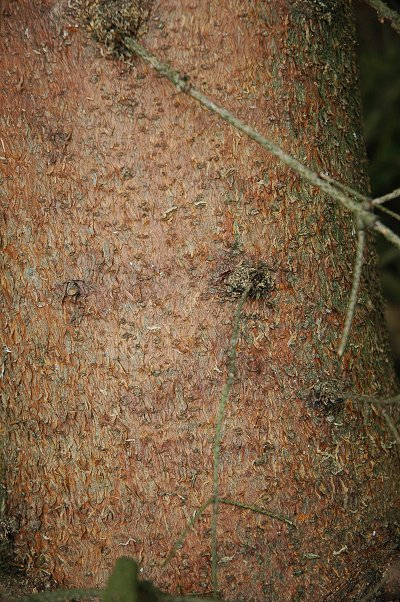 Bark of Spruce (Picea abies), young tree